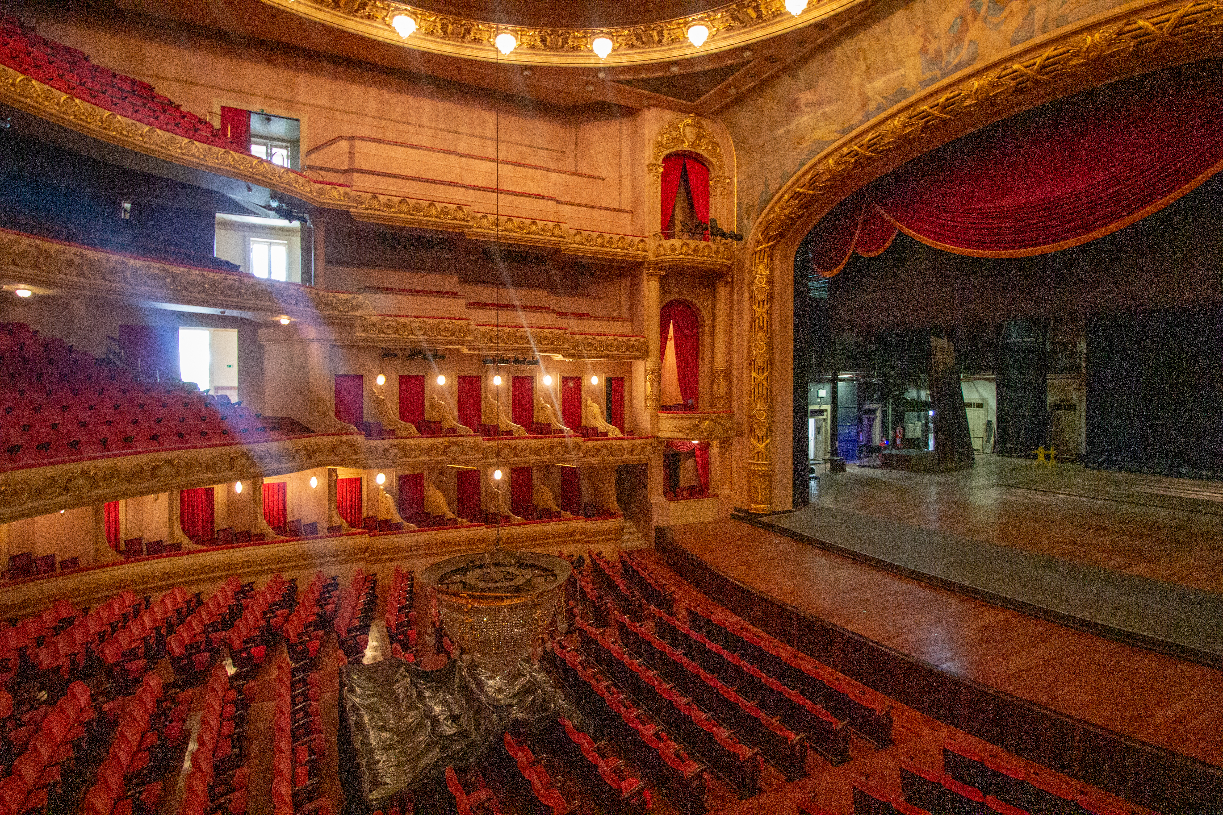 At Rio de Janeiro